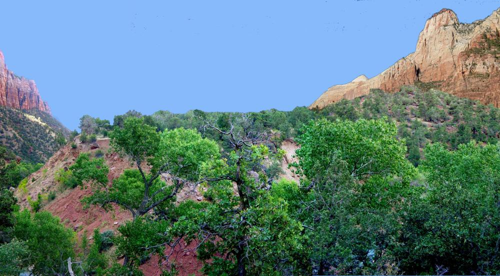 Photo taken by Daniel Mayer in August 2004.